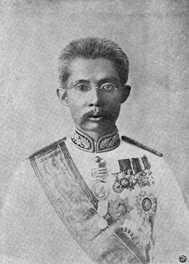 Prince Phichit Prichakon. Son of King Mongkut of Siam